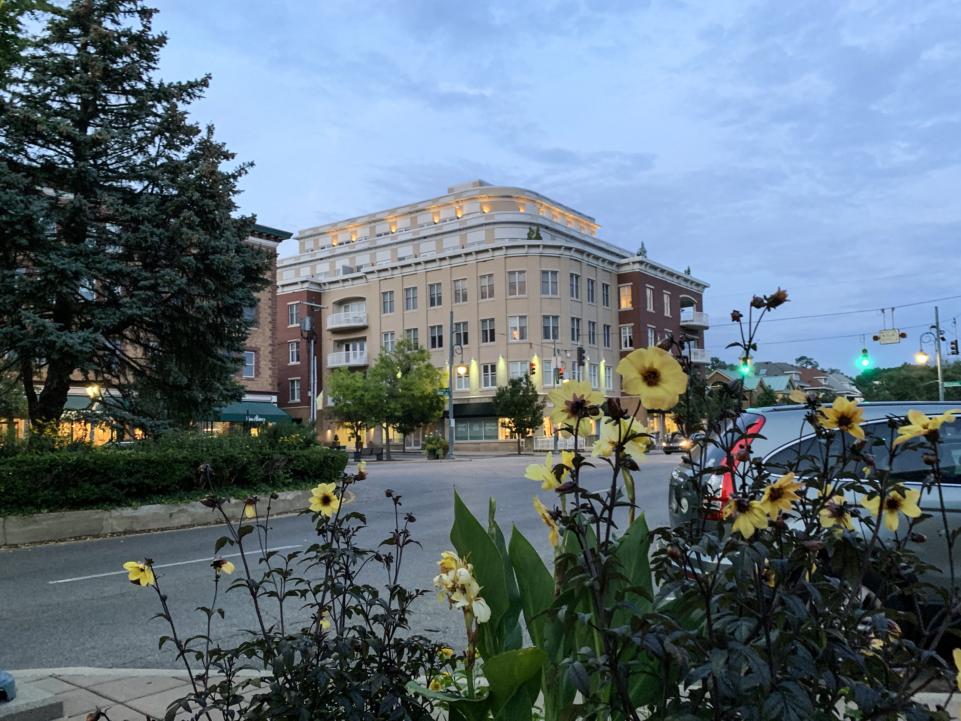 View of Hyde Park Square in Cincinnati, Ohio